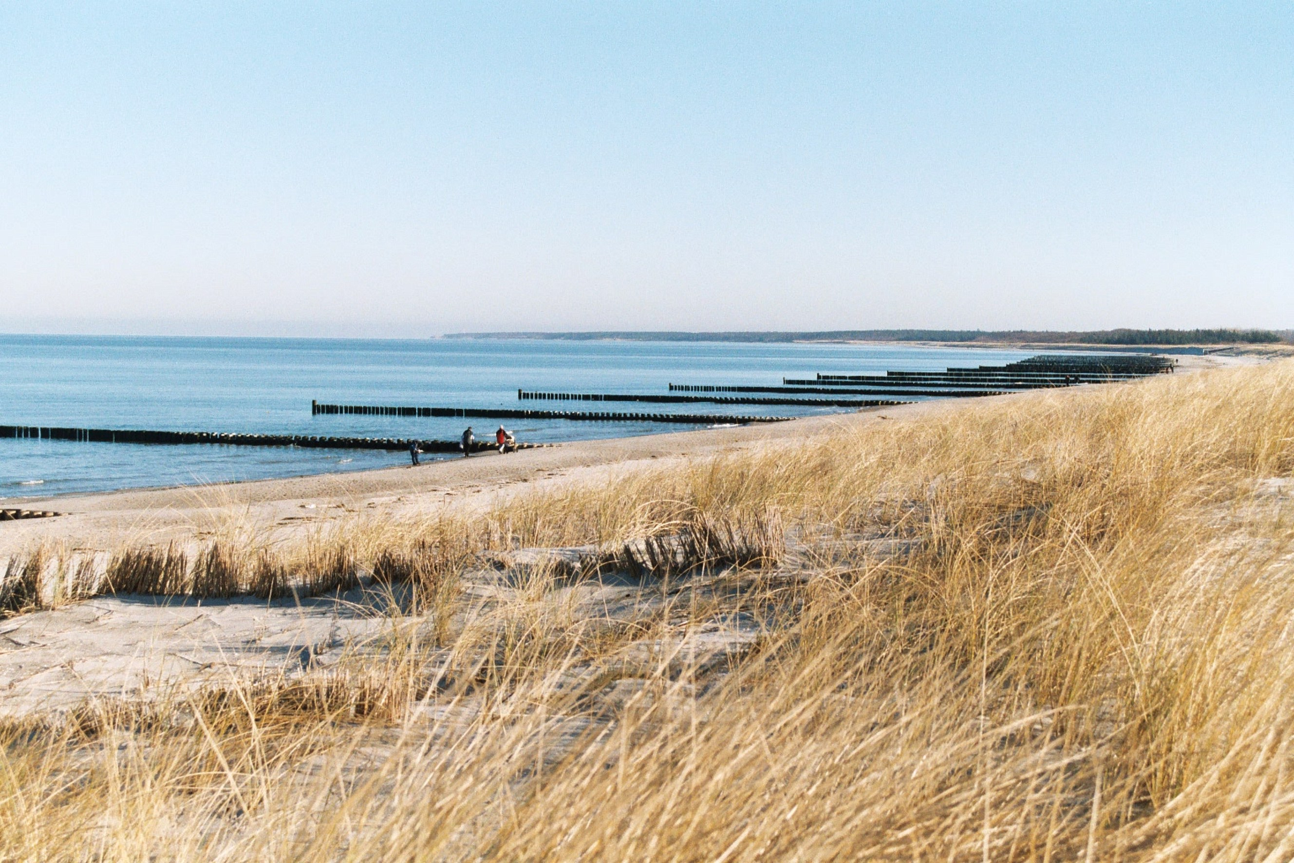 Ahrenshoop, the beach in the winter